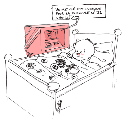 DADVSI cartoon. Translation: "Your key is invalid for lullaby No 31 Plea[se] [use a valid key]"